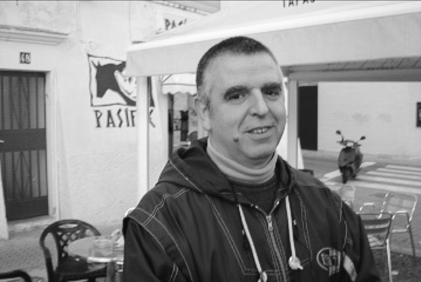 This photo was taken in Catalonia, in the village of Villanova i la Geltrú, near Barcelona.